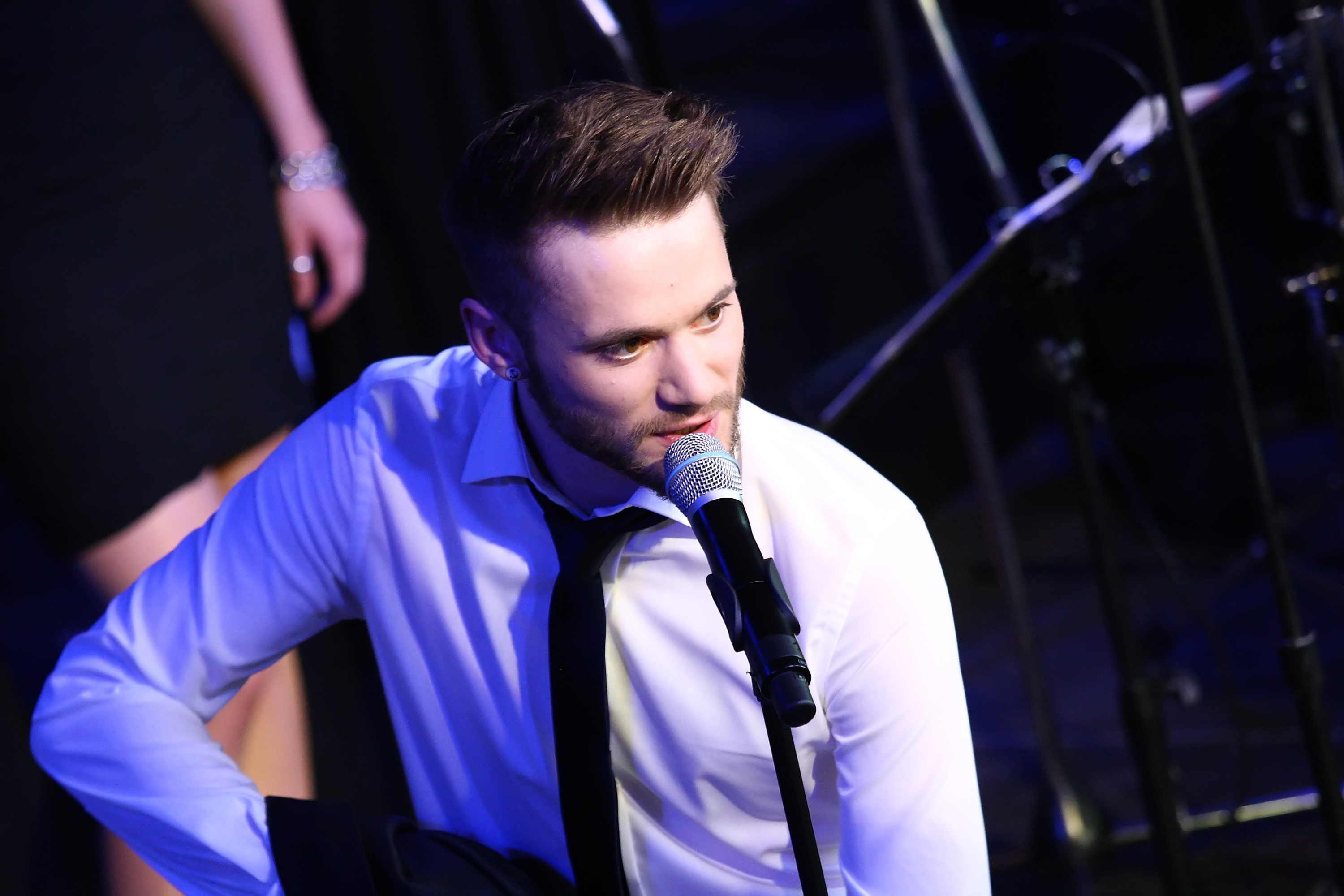 Roman Lob